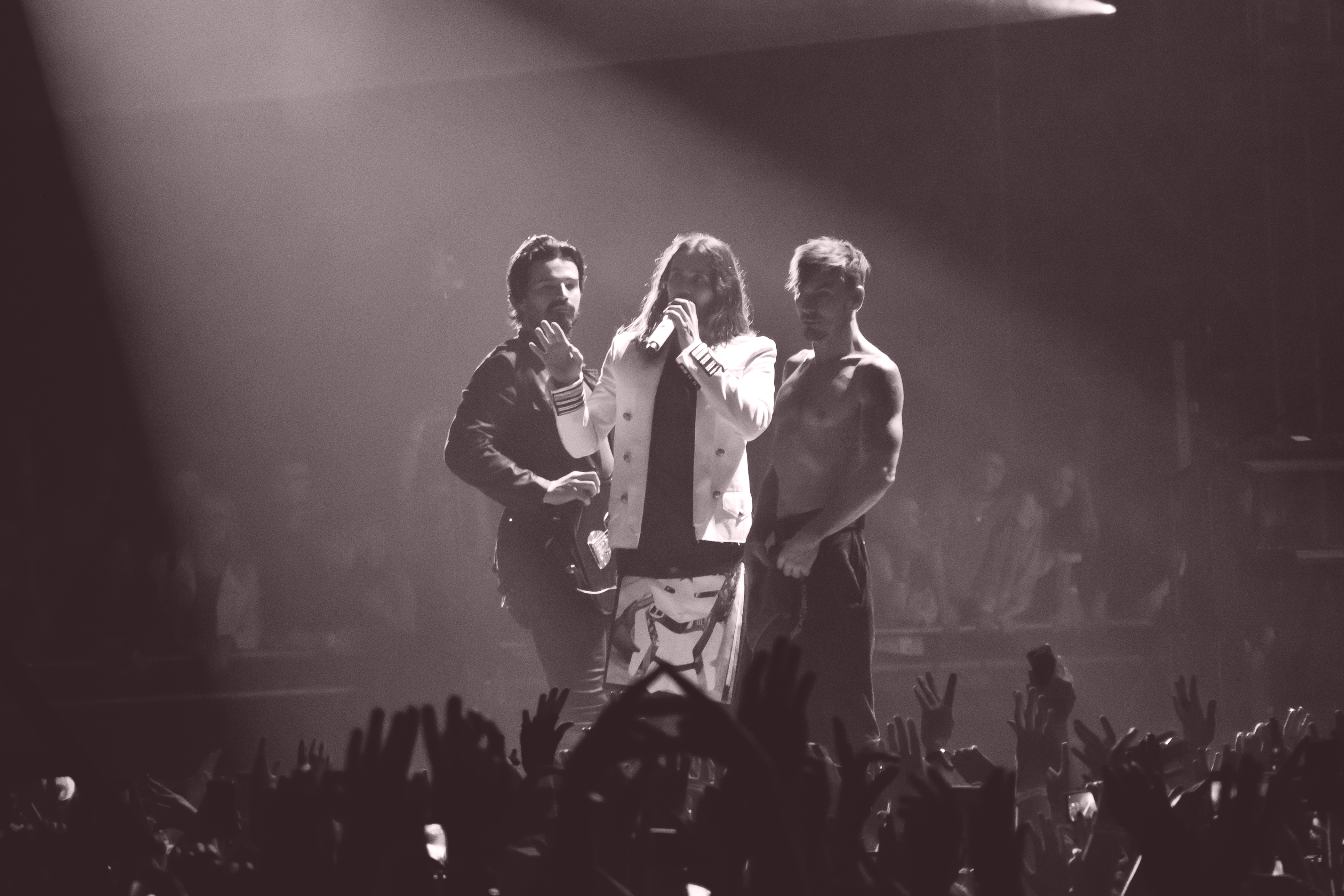 Thirty Seconds to Mars in Moscow, Russia on March 16, 2014